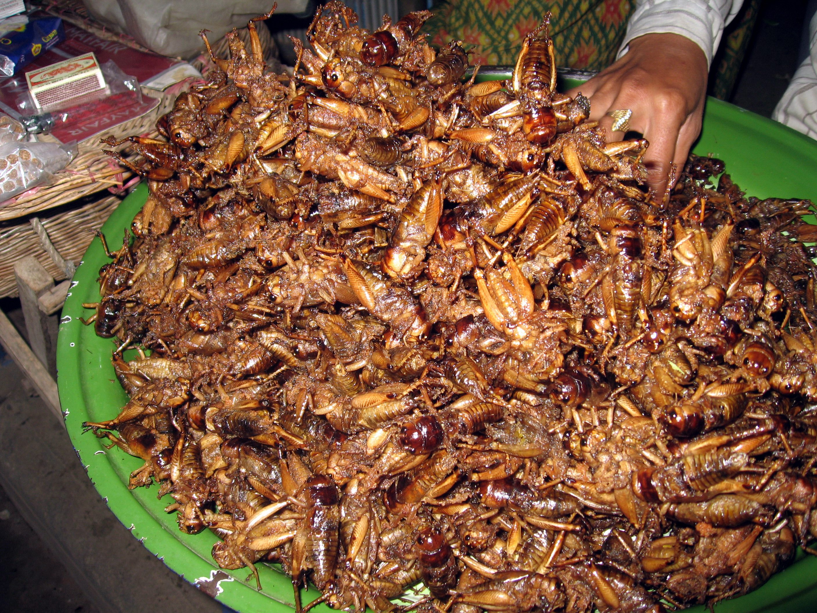 fried crickets on a market in Cambodia